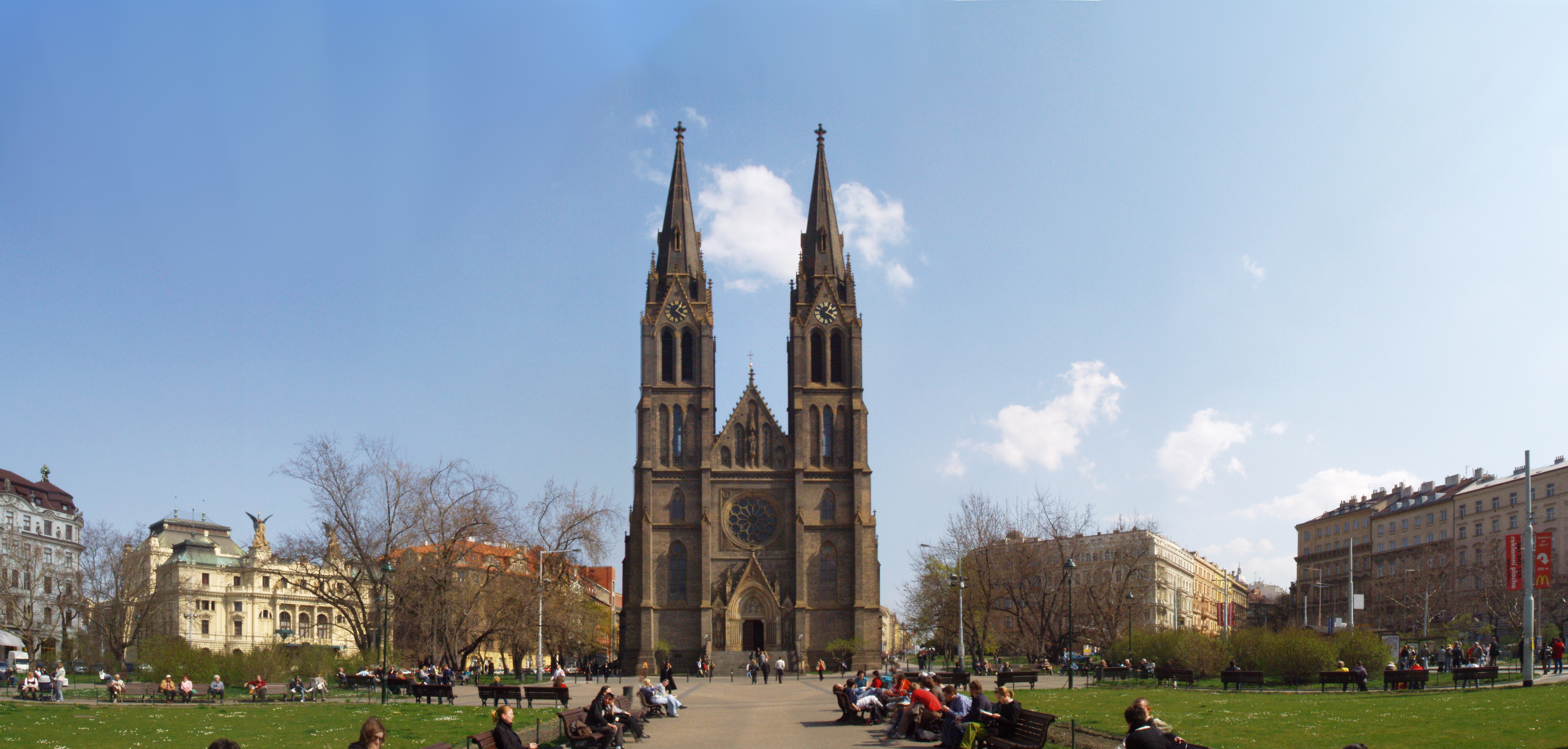 St. Ludmila church in Vinohrady, Prague, Czech Republic